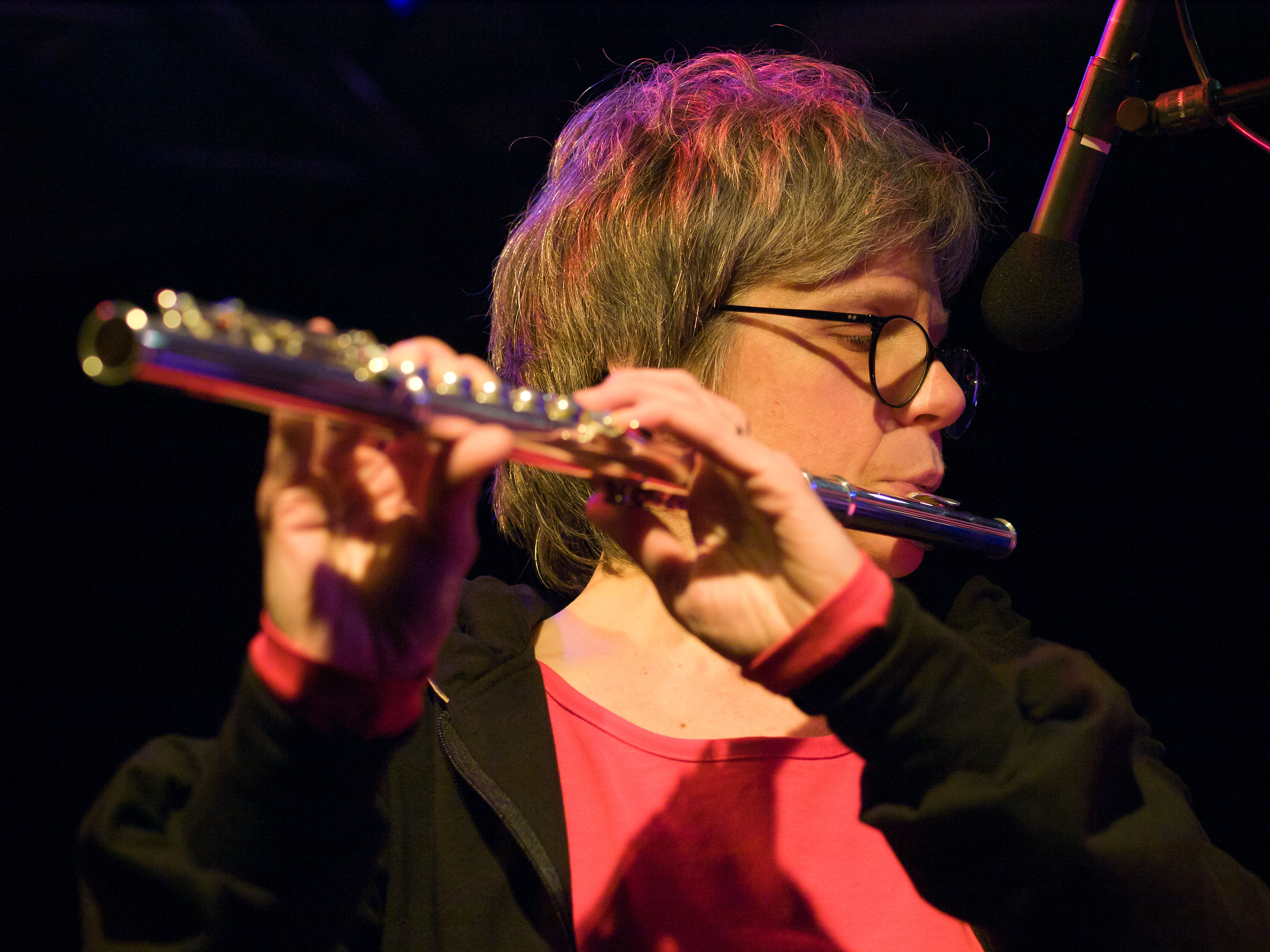 Anne La Berge, Jazz flautist; Picture taken in Jazz Club Unterfahrt, Munich/Bavaria